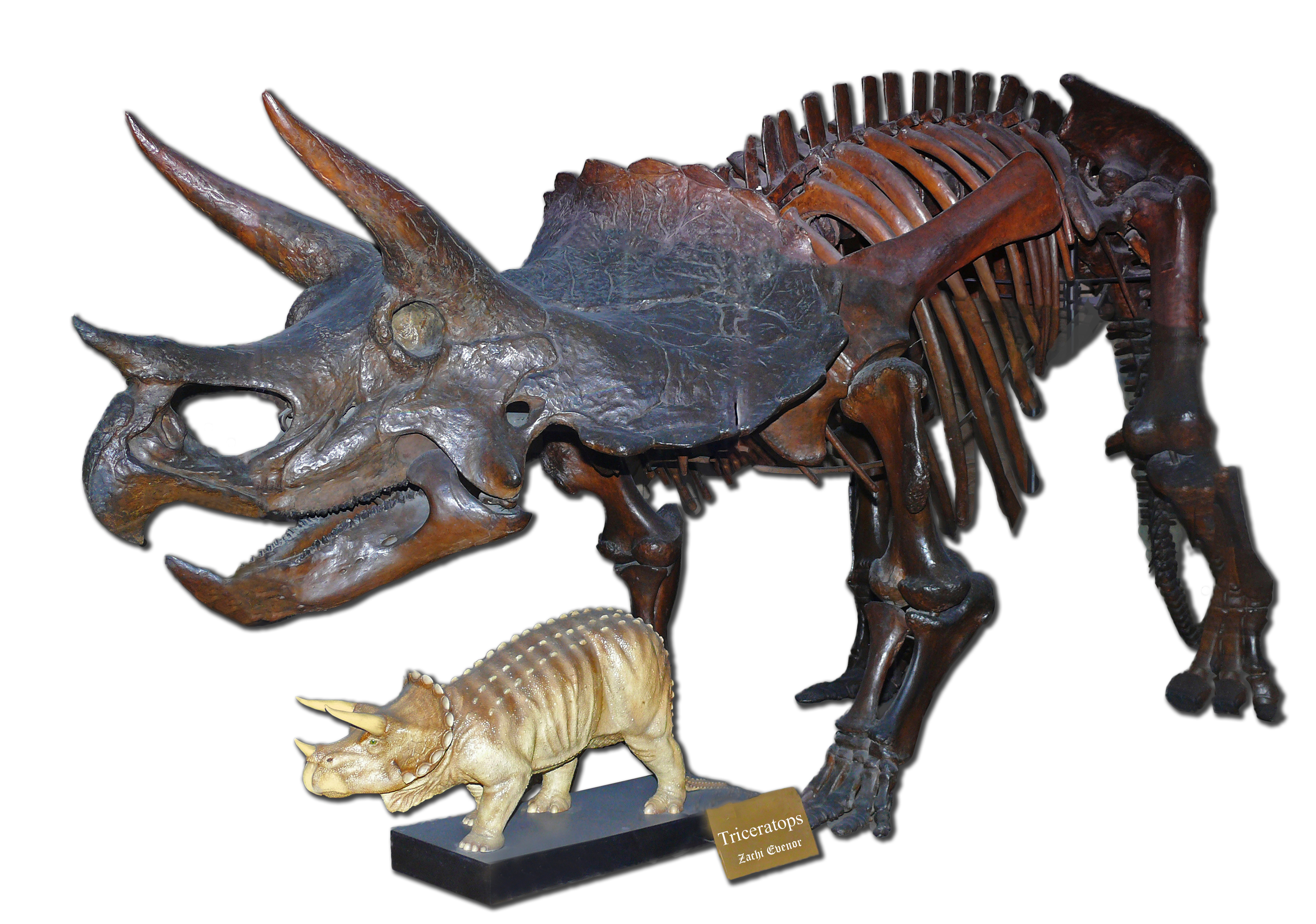 Triceratops - skeleton in London Natural History Museum. This is not a cast, but a papier mâché model.[1] Photography and processing by Zachi Evenor